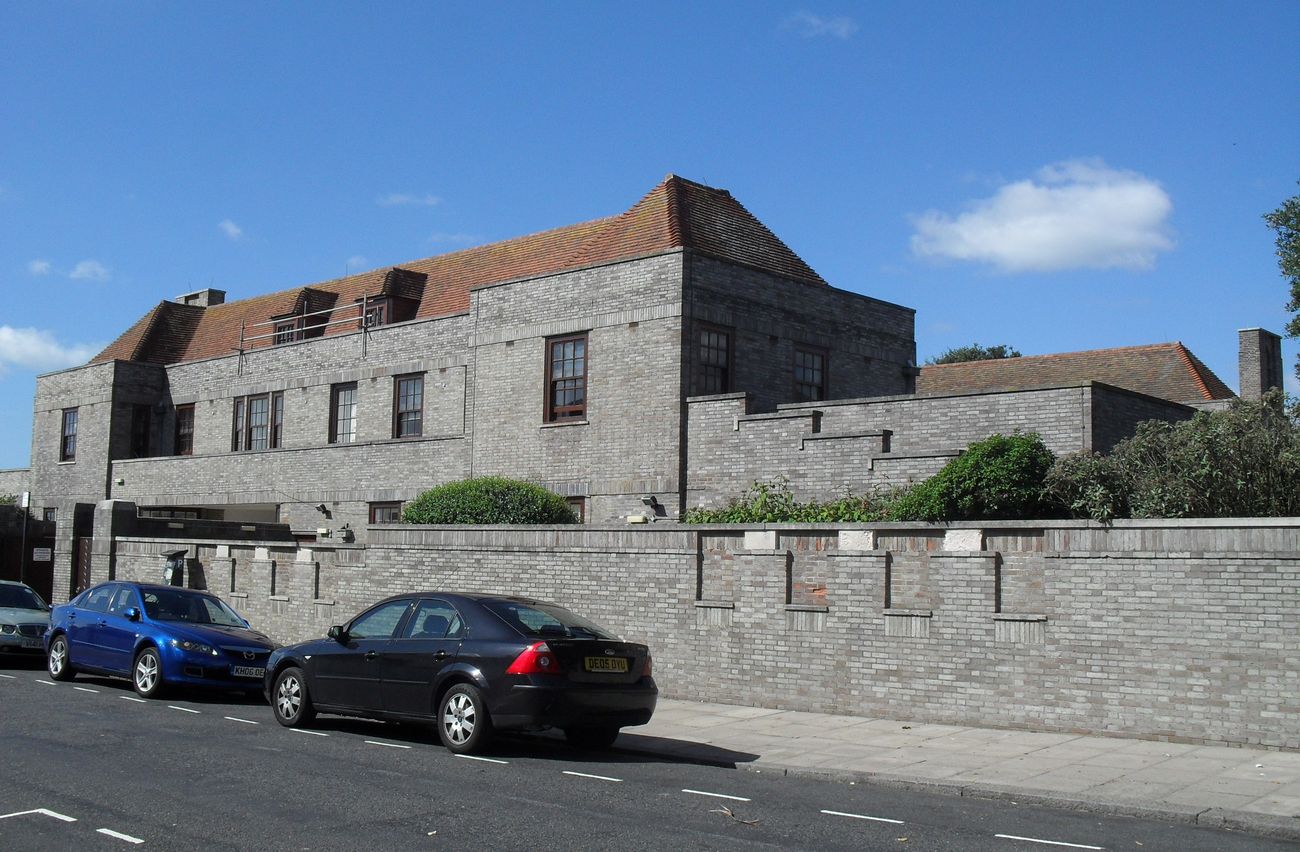 View from the northeast of Barford Court, Princes Crescent, Hove, City of Brighton and Hove, East Sussex. Built of specially made and imported Italian brick by cinema architect Robert Cromie as a private house for iron industry magnate Ian Stuart Millar. The Neo-Georgian building dates from 1934 and has an Art Deco interior. It is now a care home. Listed at Grade II by English Heritage (IoE Code 365555)